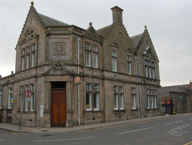 Dunfermline Post Office Dunfermline Post Office is situated at the corner of Pilmuir Street and Queen Anne Street, it has been here since 1890 and it is a category B listed building.